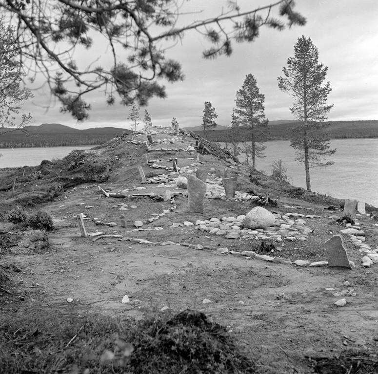 The necropolis Krankmårtenhögen in Härjedalen, Sweden, after excavation and restauration 1964.